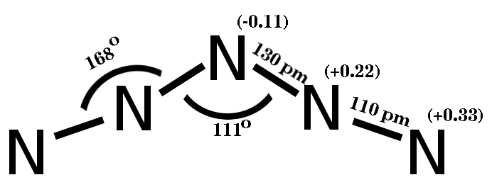 Molecular structure of pentazenium cation N5+, based on the X-ray structure published by .